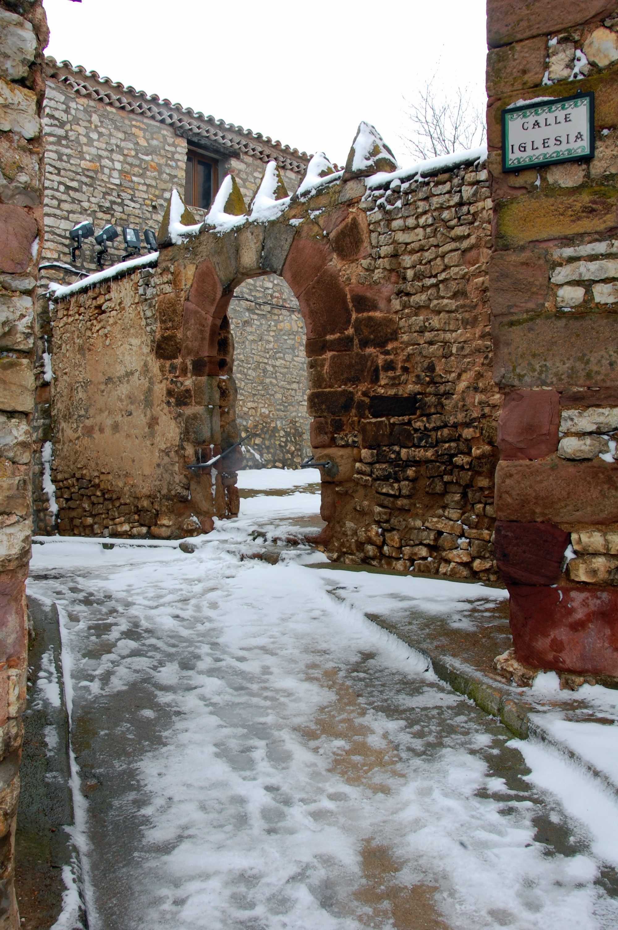 Arc at the entrance of Pozondón's church.